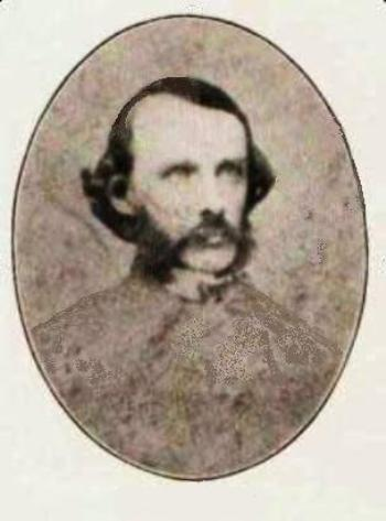 Eugene Beauharnais Cook (New Yok 1830-Hoboken 1915), american chess composer